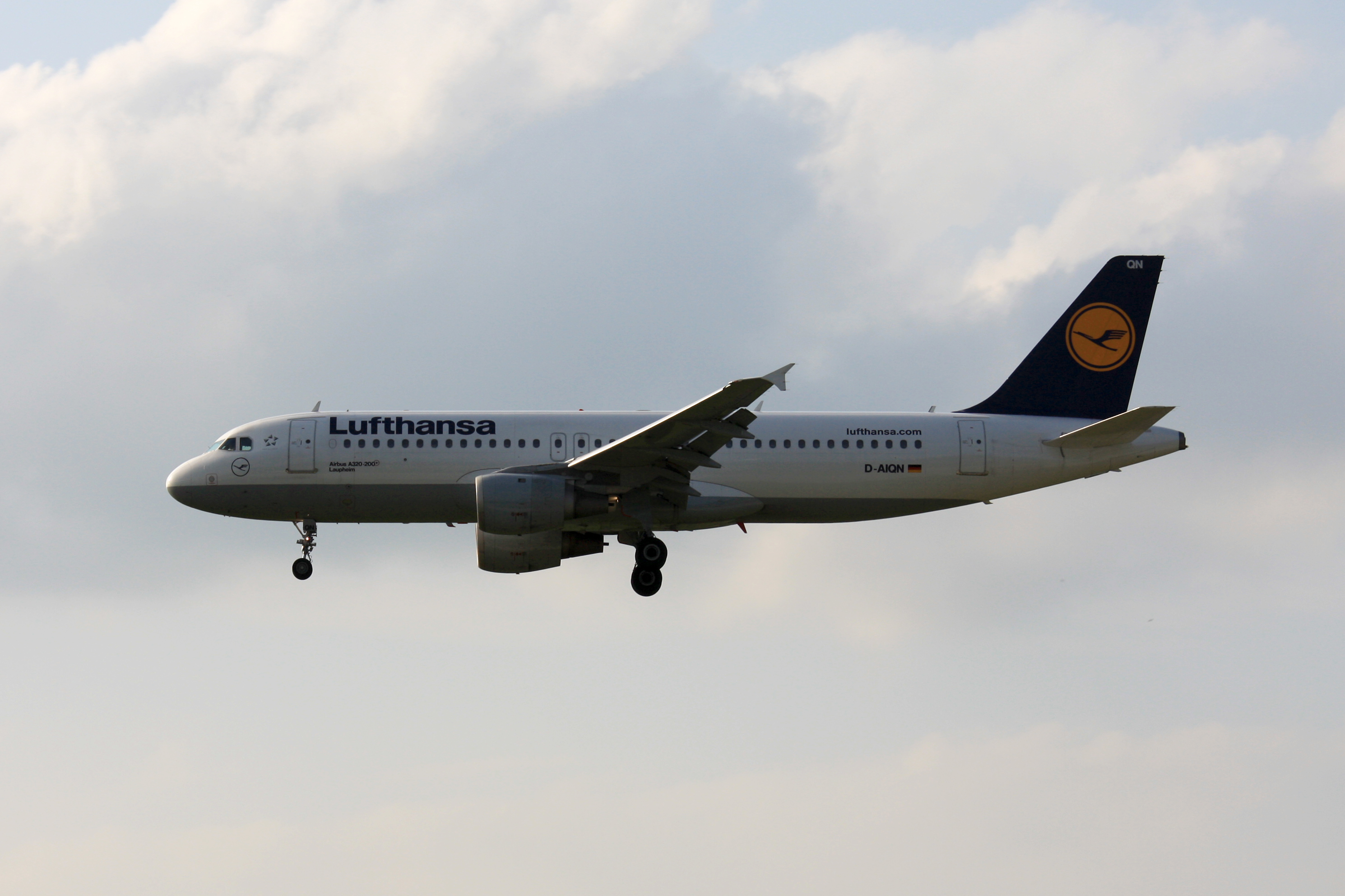 A320-200 of Lufthansa at Frankfurt Airport